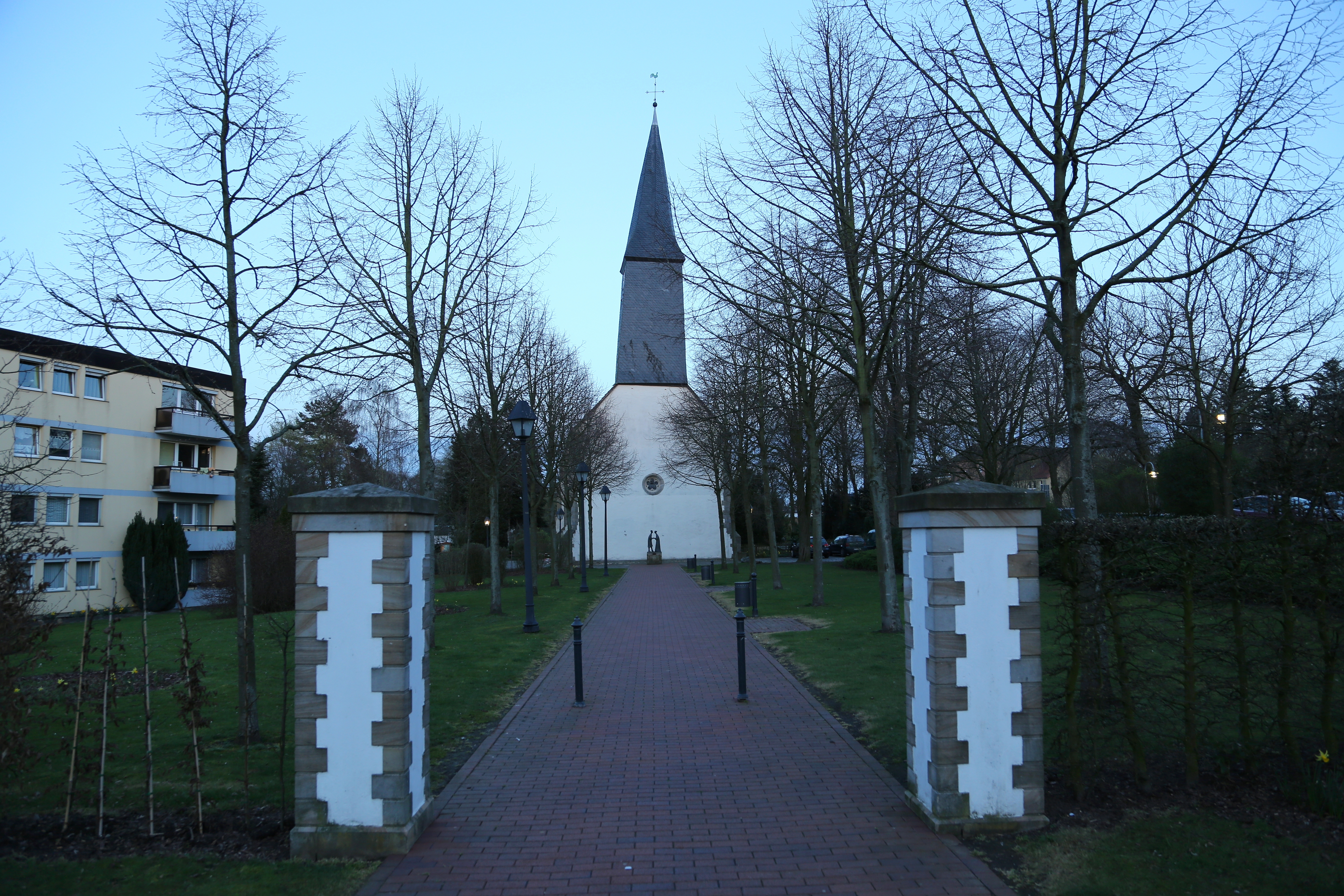 Lotte Protestant Church (Evangelische Kirche Lotte) in Alt-Lotte, a district of Lotte, Kreis Steinfurt, North Rhine-Westphalia, Germany. The church is a listed cultural heritage monument.